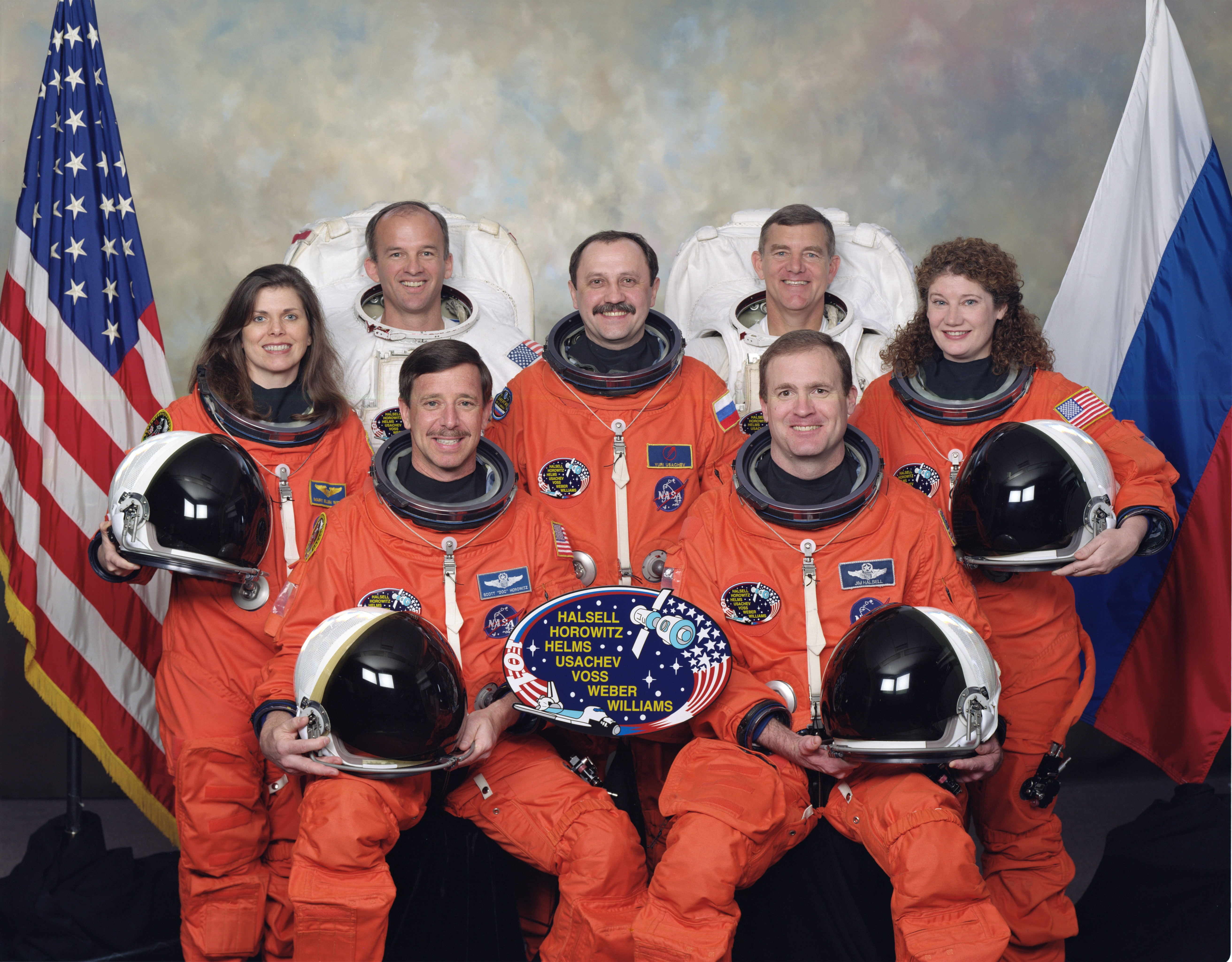 Six astronauts and a Russian cosmonaut take a break from training for the STS-101 mission to pose for a crew portrait. Seated in front are astronauts James D. Halsell (right), mission commander; and Scott J. Horowitz, pilot. Others, from the left, are Mary Ellen Weber, Jeffrey N. Williams, Yury V. Usachev, James S. Voss and Susan J. Helms, all mission specialists. Usachev represents the Russian Space Agency (RSA).